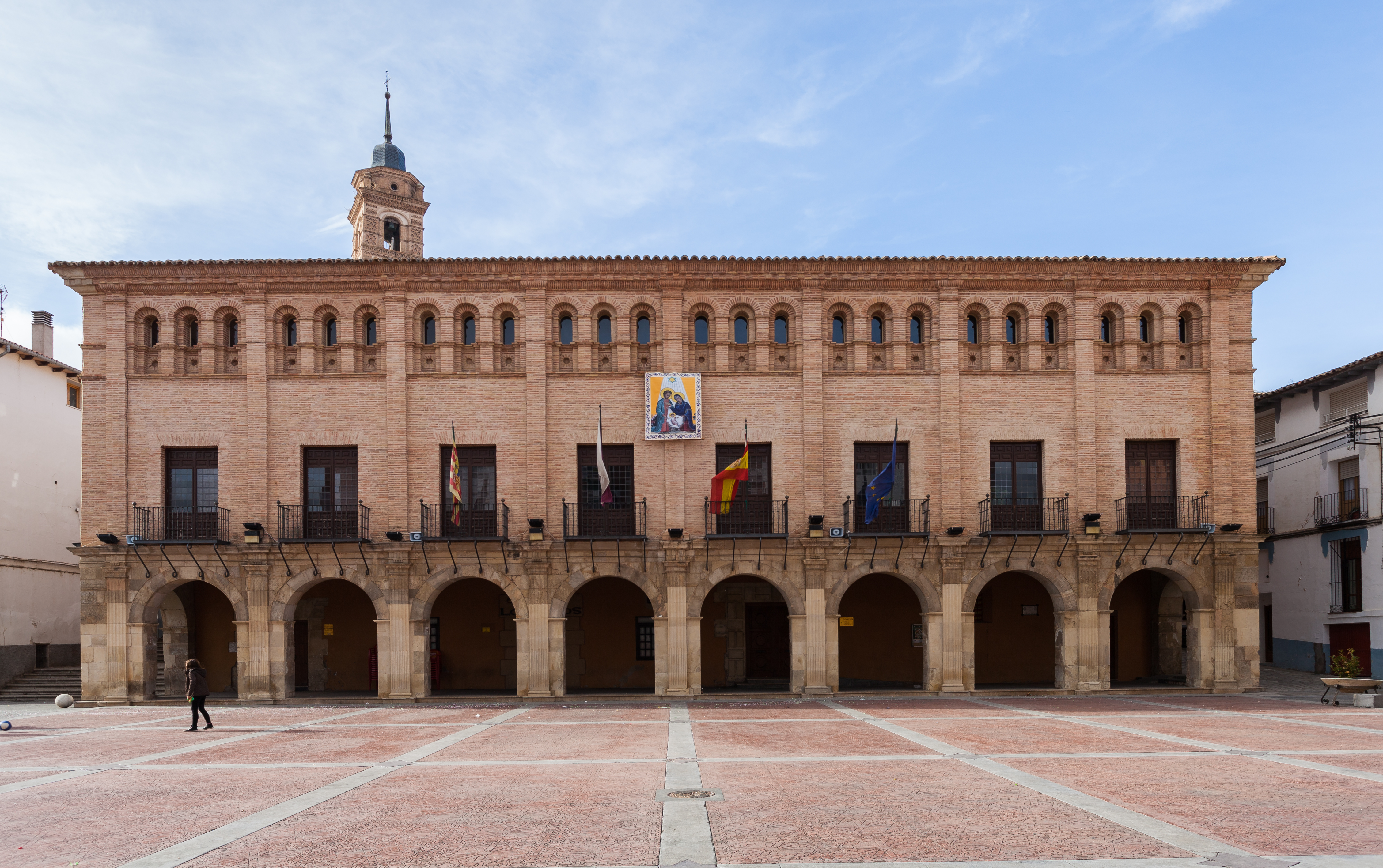 Ateca Town Hall, Zaragoza, Spain